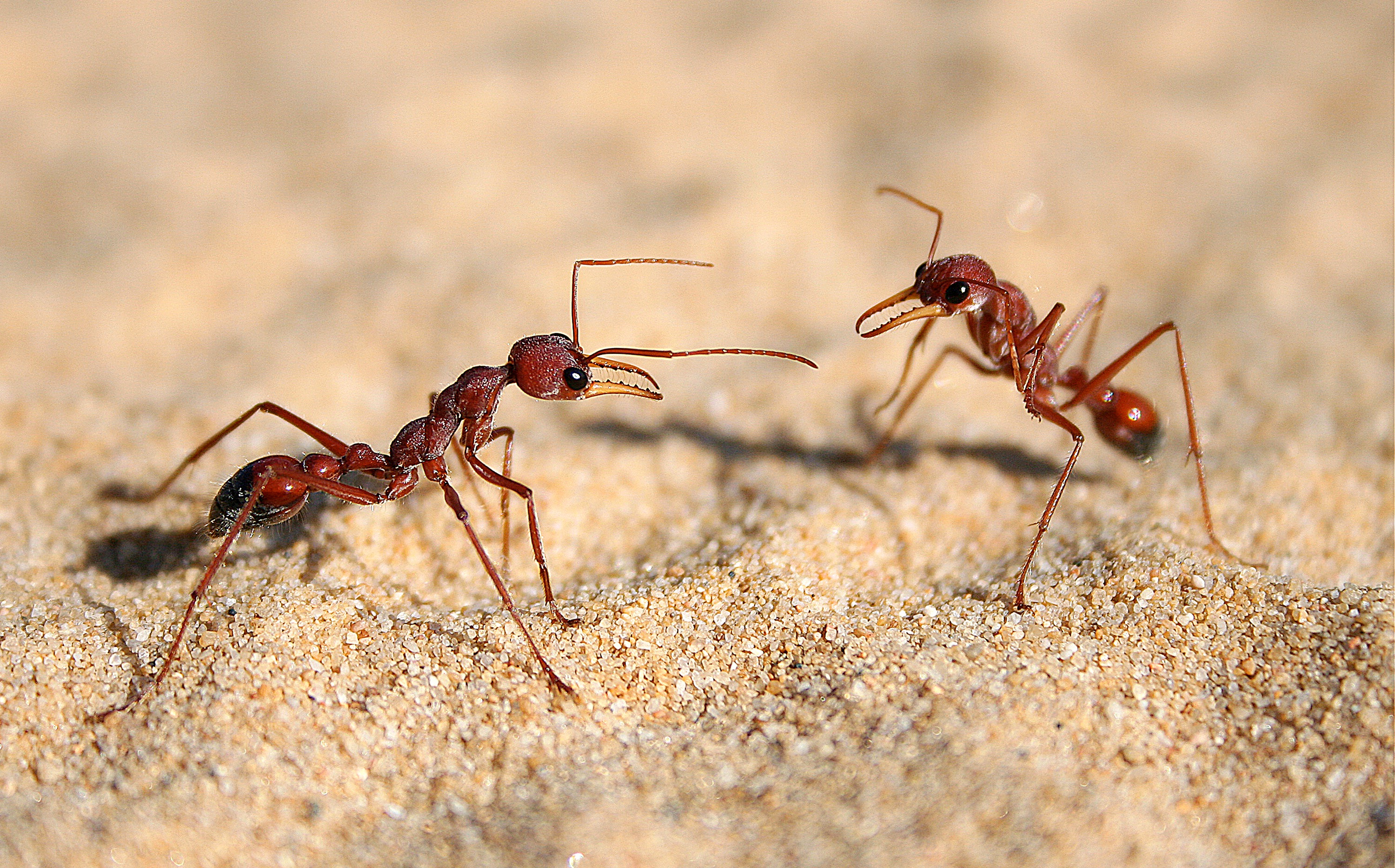 Communication in bulldog ants (Myrmecia nigriscapa) Sydney, Australia” Attribution: Sylvain Dubey (University of Lausanne)